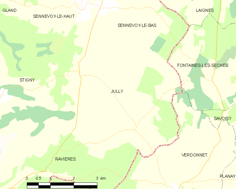 Map of French municipality Jully